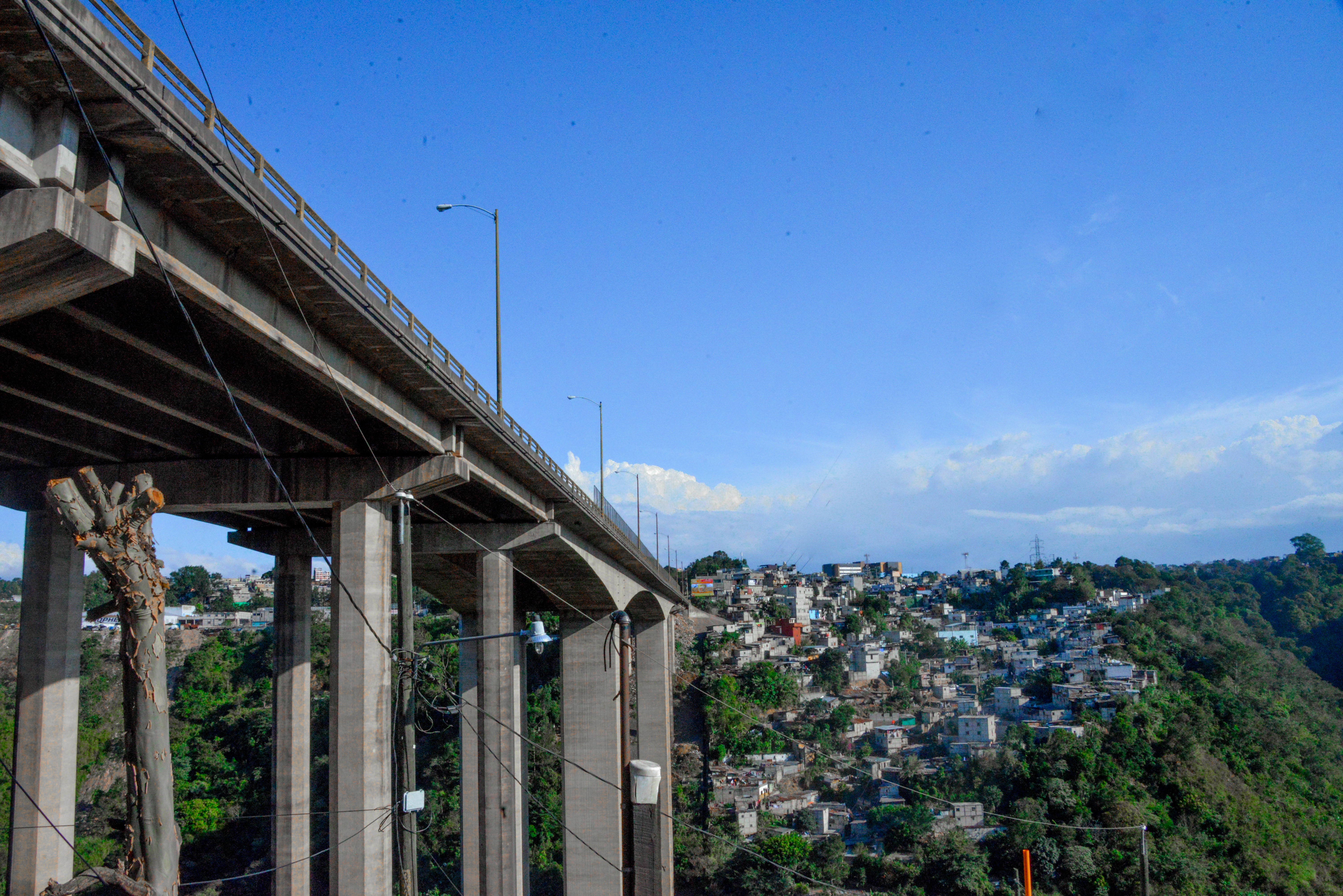 Bridge to Zone One in Guatemala City near the end of the Periferico.